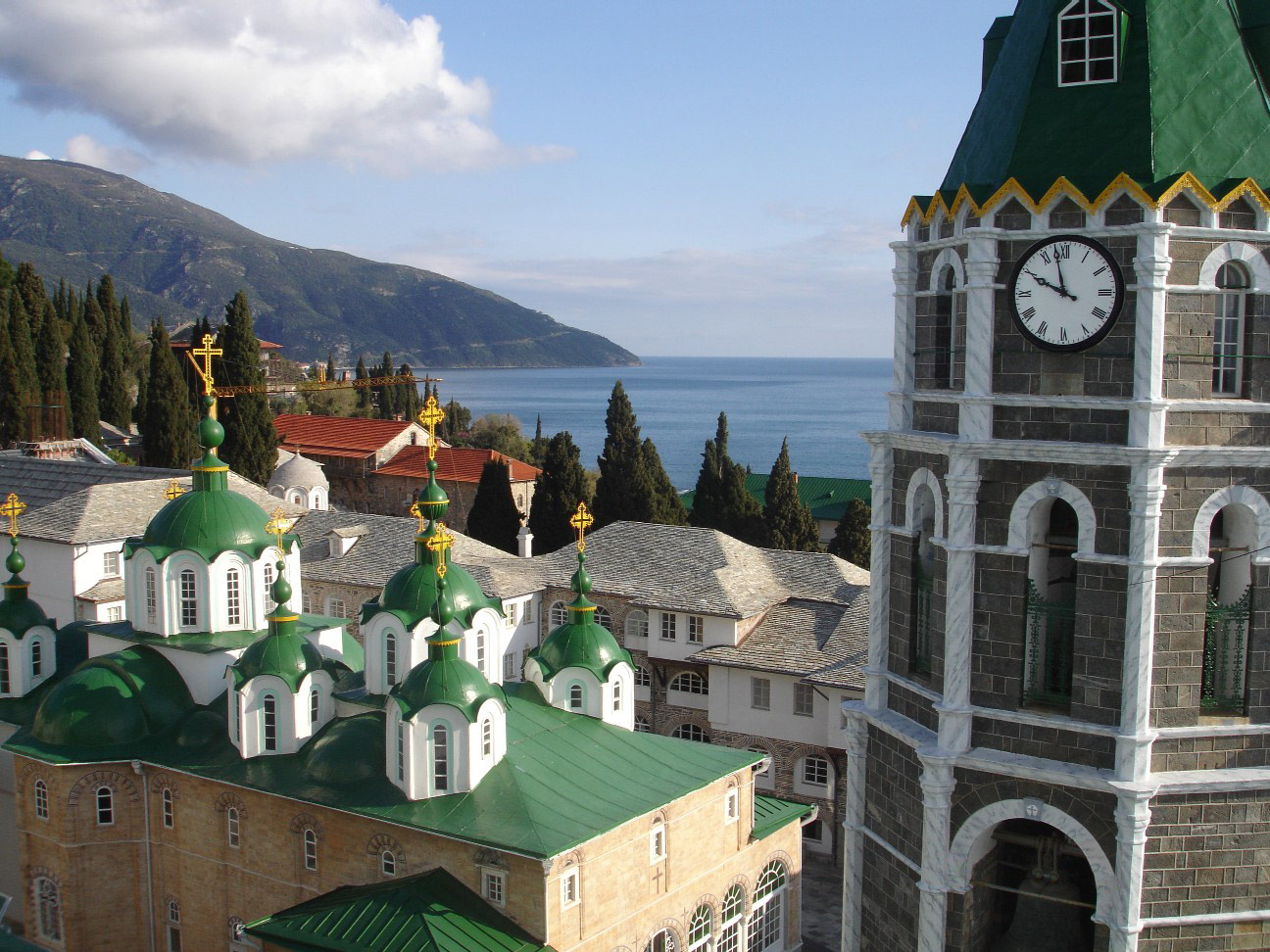 St. Panteleimon Russian Orthodox Cathedral, Mt. Athos, Greece. Author: Vasiliy Krivtsov ( Source URL: N/A (own work)